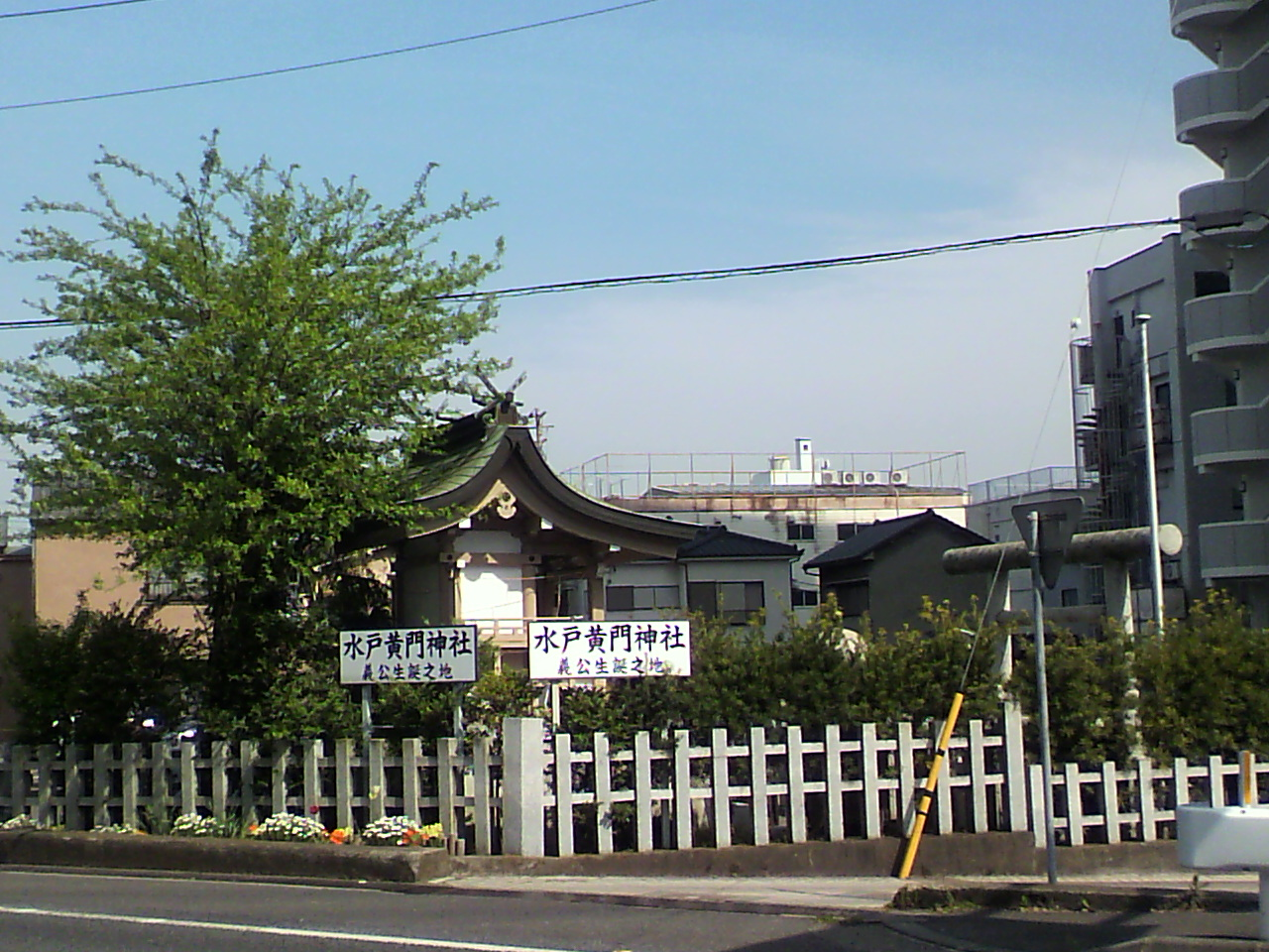 This is a shrine which is located in Mito, Ibaraki, Japan. This is the place that Tokugawa Mitsukuni was born in.